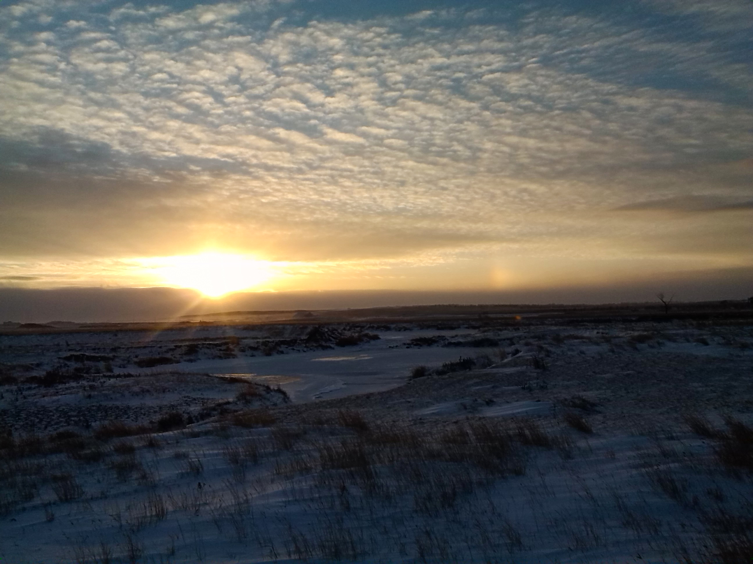 Winter view of the Little Muddy River below Cow Creek near Williston, North Dakota. Credit: Brent Hanson, USGS